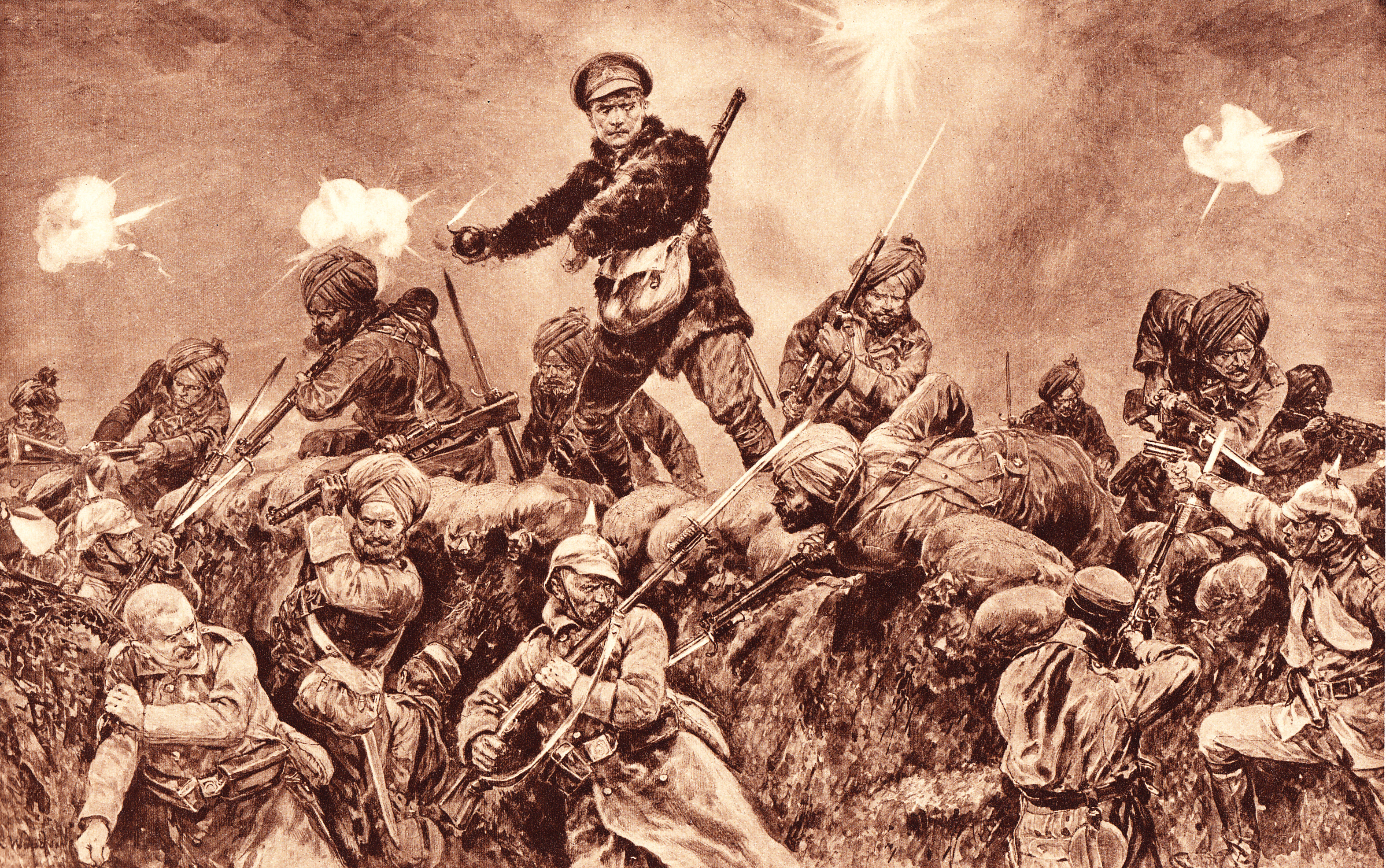 Indian troops charging German positions at Neuve Chapelle, 1915